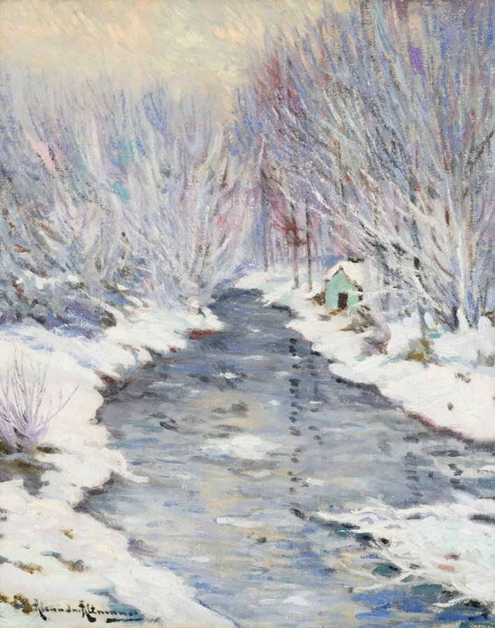 Winter landscape